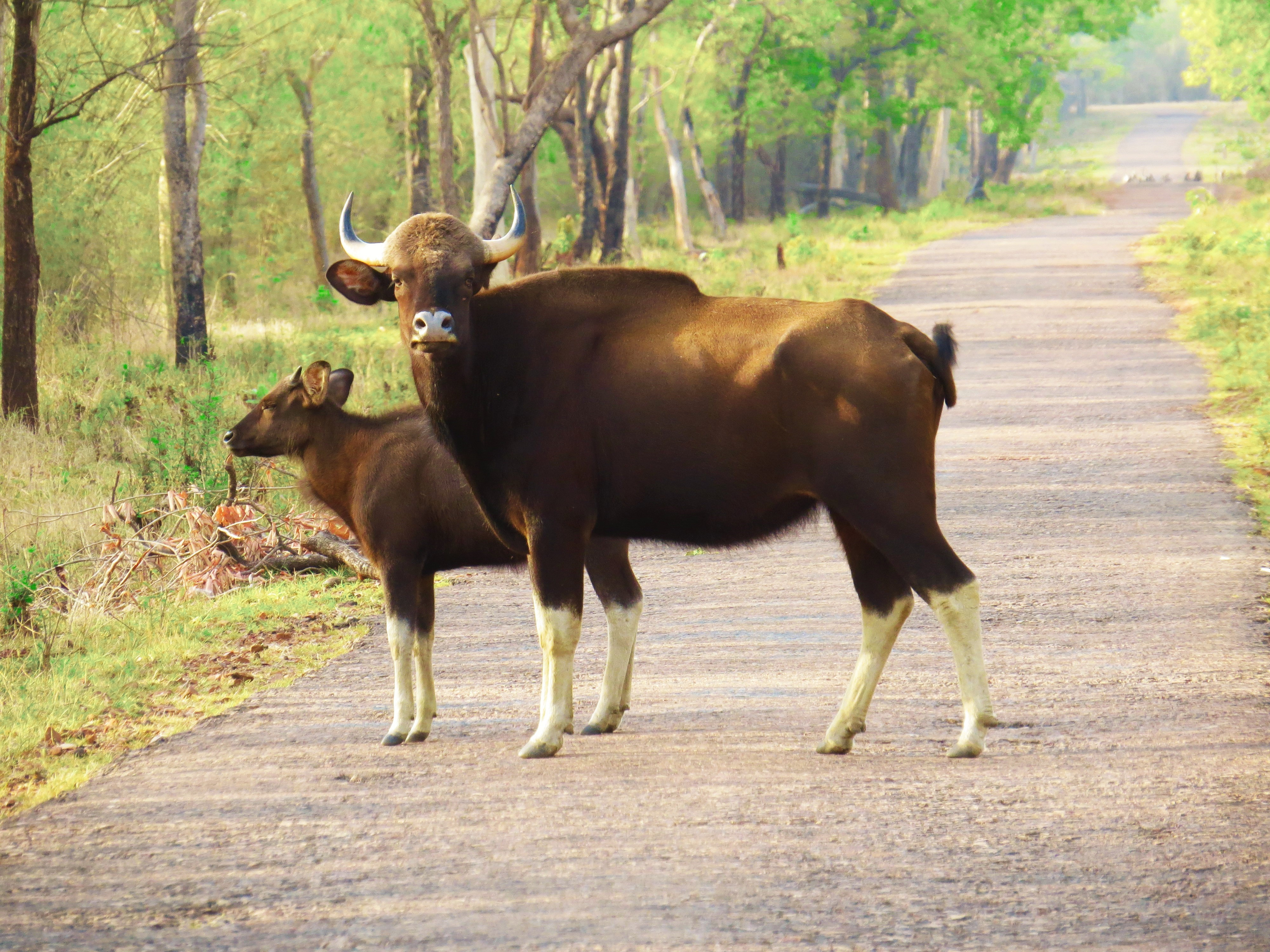 female gaur and baby gaur crossing road @tadoba national park